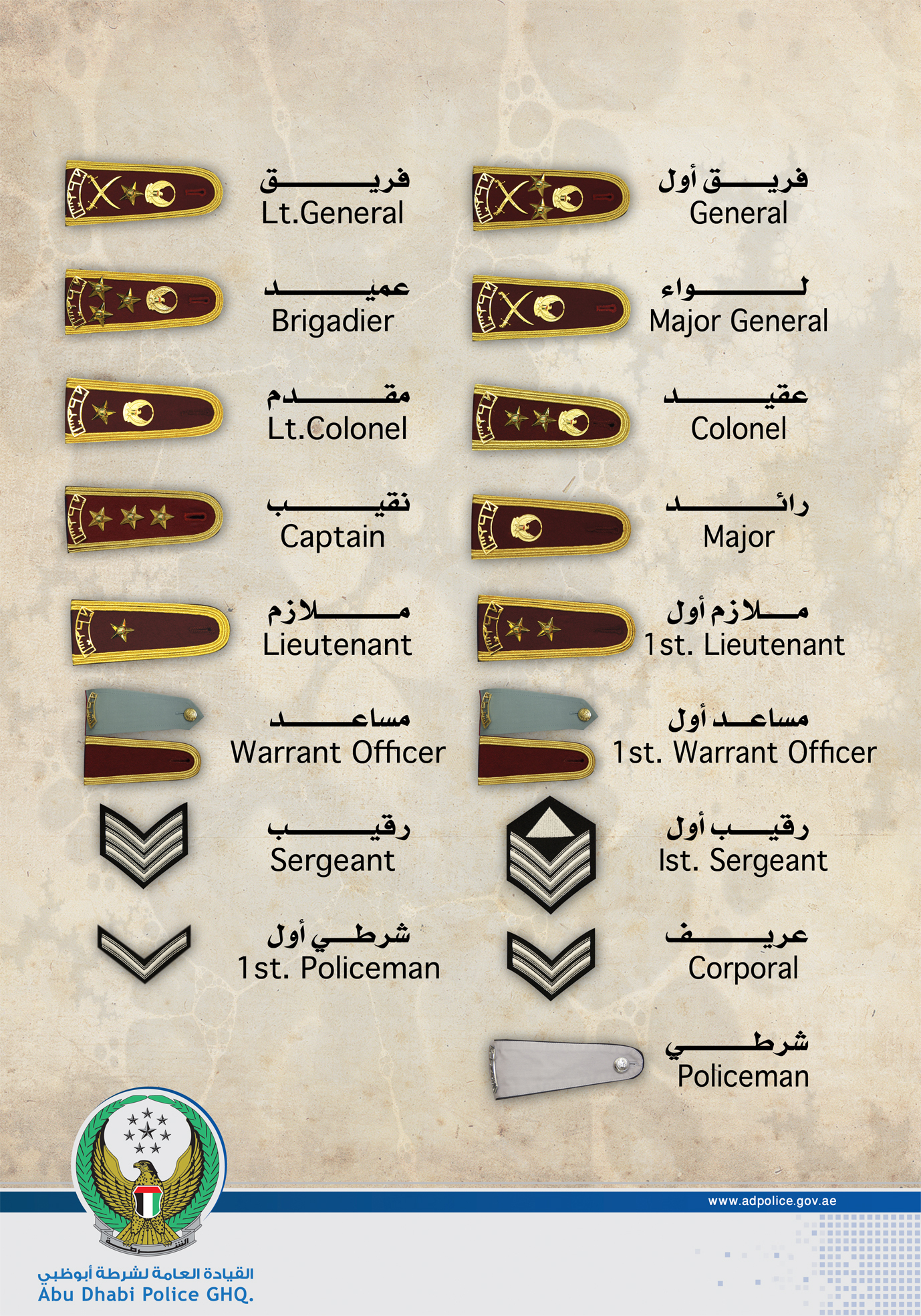 Chart showing the ranks in Abu Dhabi Police